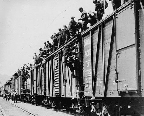 Strikers from unemployment relief camps en route to Eastern Canada during "March on Ottawa" in June 1935 in Kamloops, B.C. From Information on image from ArchiviaNet REFERENCE NUMBERS: ACCESSION: 1967-113 REPRODUCTION: C-029399 (copy negative number); CONSULTATION/REPRODUCTION: Graphics: photos Restrictions on access: Nil USE/REPRODUCTION: Restrictions on use/reproduction: Nil Copyright: Expired Credit: Library and Archives Canada / C-029399 As the author cannot be readily identified, the Copyright Act of Canada [1] only grants copyright for 50 years since the first publication.--Jusjih 00:33, 17 September 2007 (UTC)